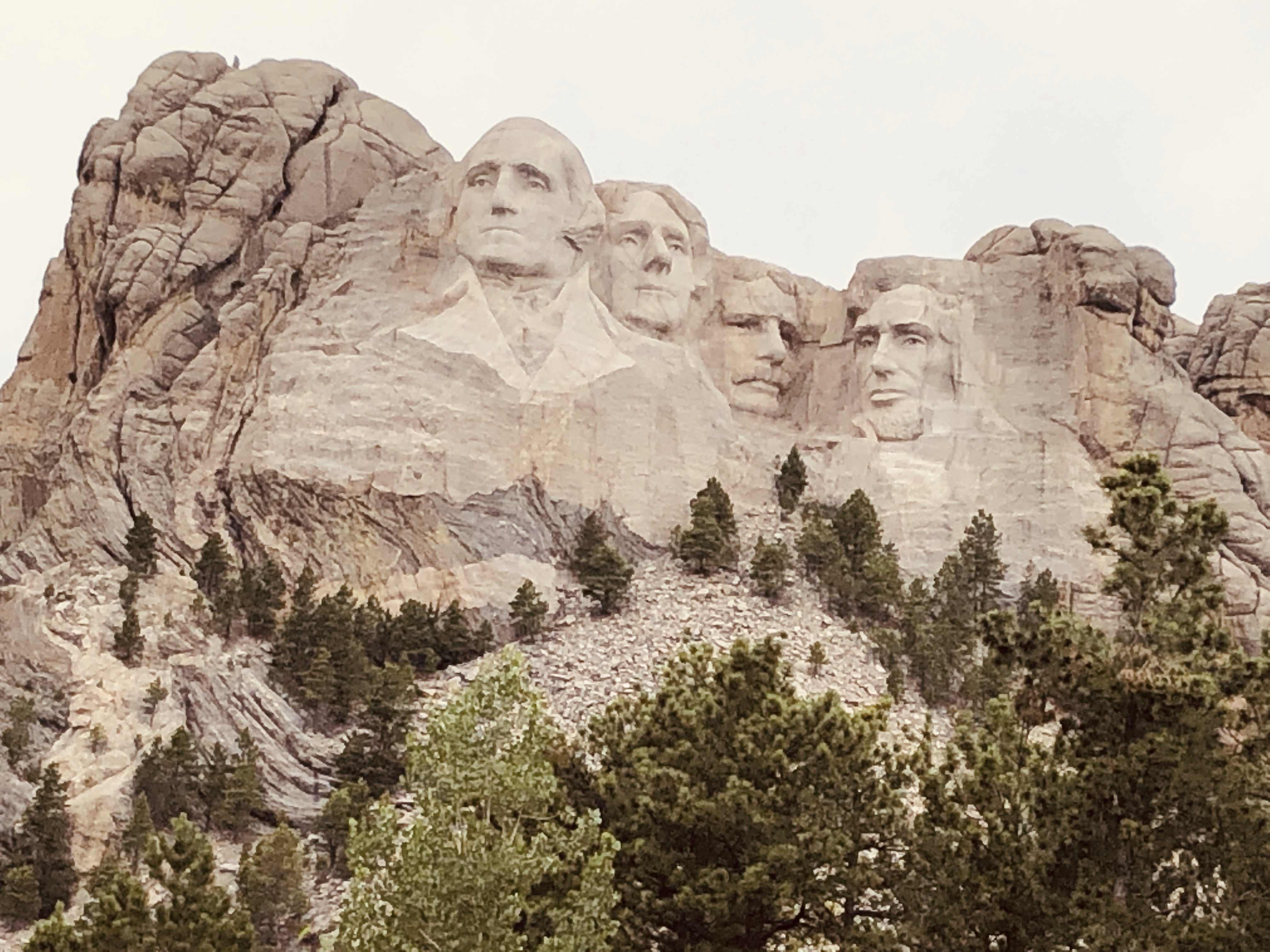 Mount Rushmore sculpture of America's most famous and historical presidents, George Washington a Founding Father, Thomas Jefferson, Theodore Roosevelt and Abraham Lincoln.